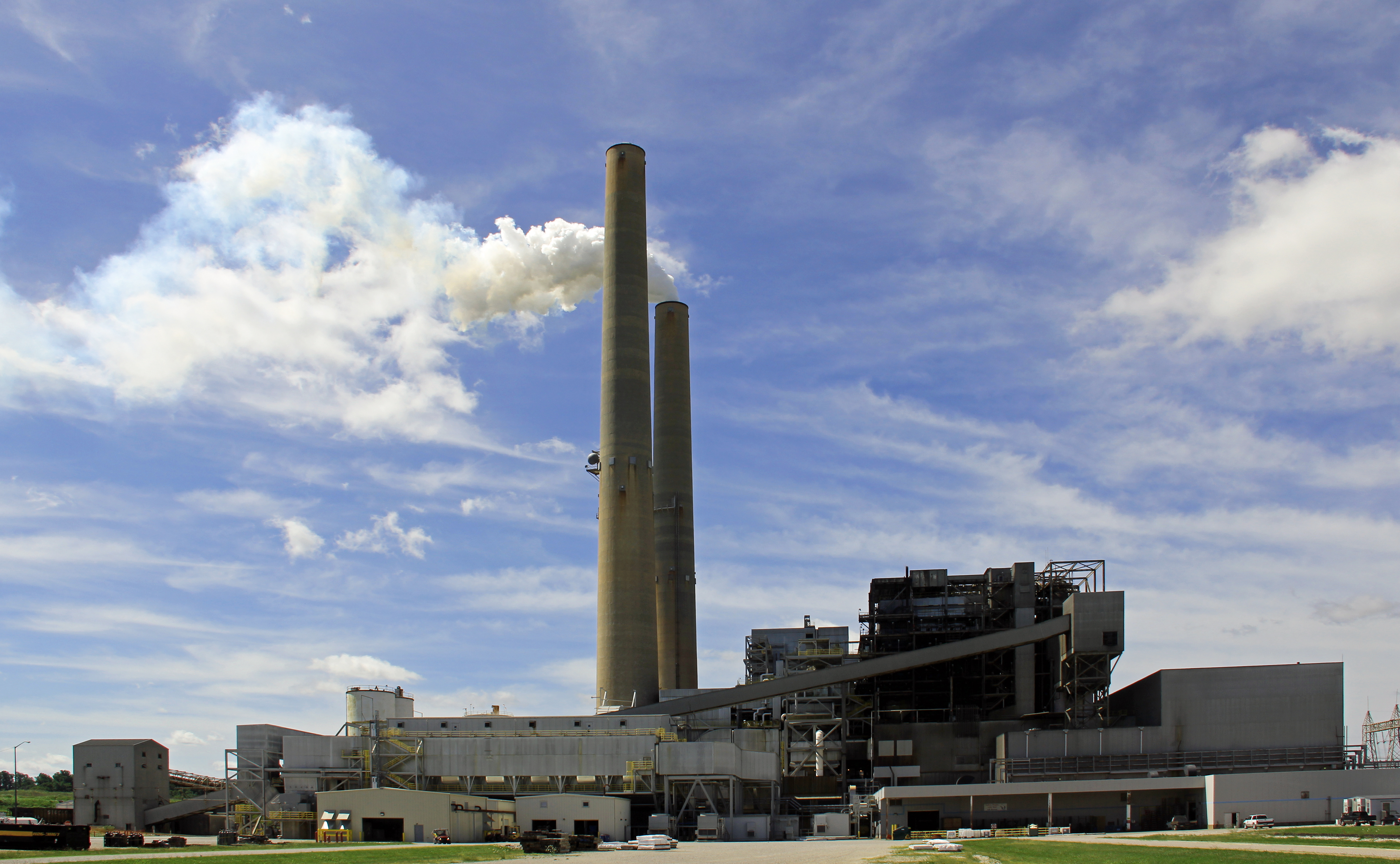 The A.B. Brown Generating Station is a coal-fired power station owned and operated by Vectren near Mount Vernon, Indiana.